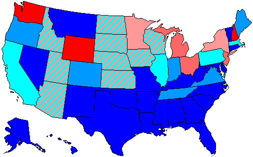 Summary of party control of U.S. house seats in the 86th United States Congress following election. Stripes indicate a tie between two or more parties. Legend: 80.1-100% Democratic seat majority 60.1-80% Democratic seat majority 60% or less Democratic seat plurality 60% or less Republican seat plurality 60.1-80% Republican seat majority 80.1-100% Republican seat majority